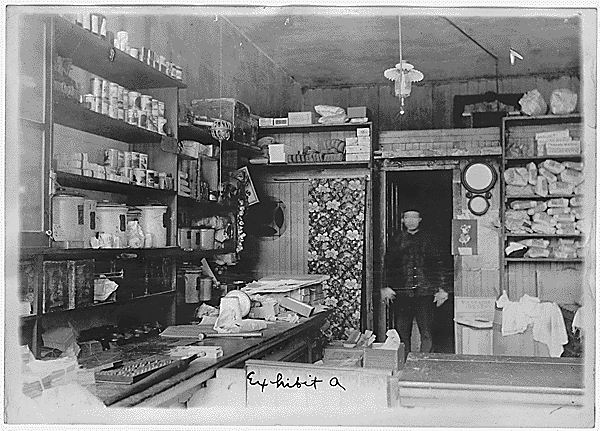 A photograph of Chinese-American merchant Lee Wong Hing in his laundromat business at 141 High Street, c. 1904. This photo was taken as a part of an investigation made under the Chinese Exclusion Act. His testimony under cross examination can be found in National Archives entry #298986.